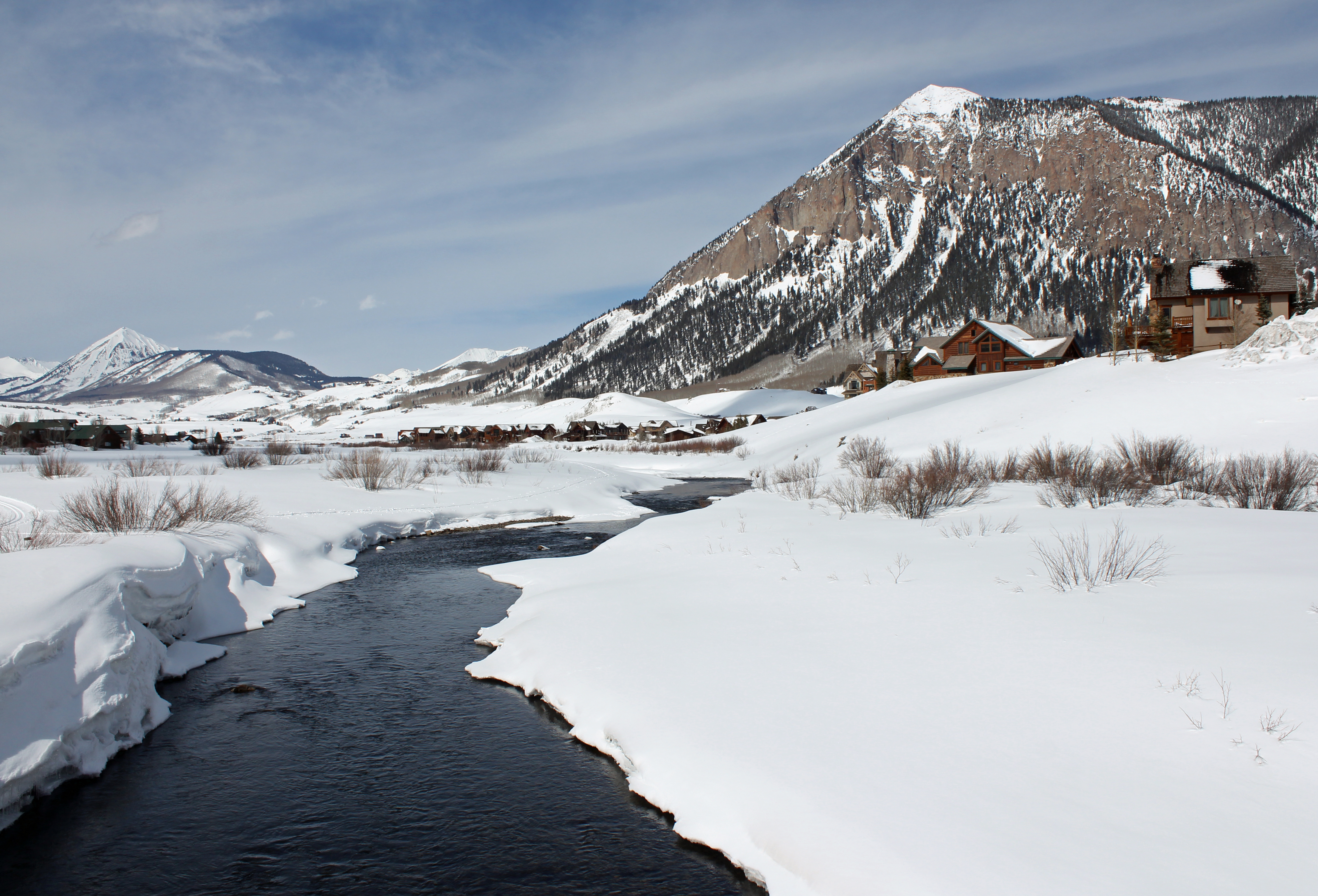 The Slate River in Crested Butte, Colorado. The mountain in the background is Crested Butte.